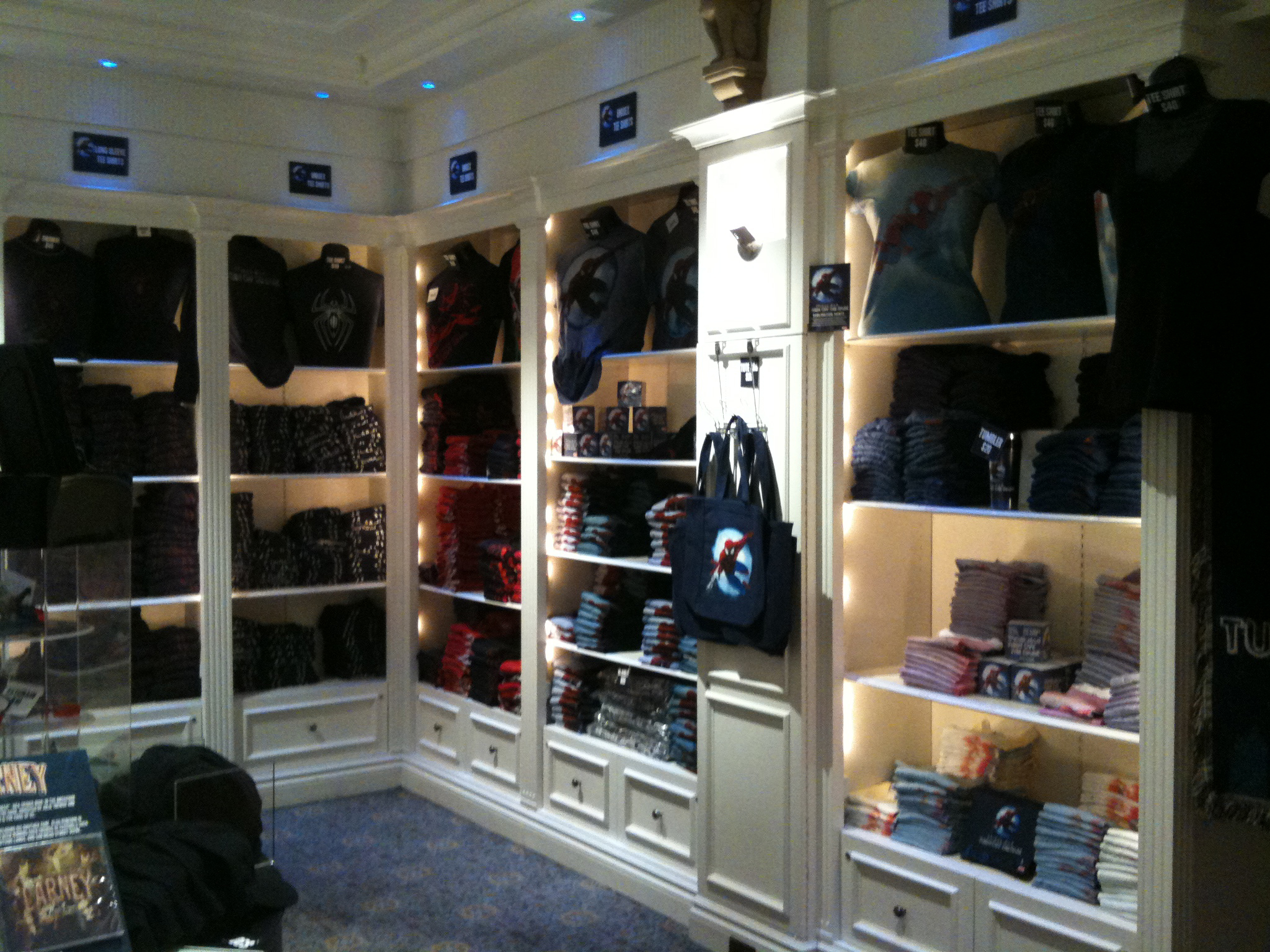 Souvenirs for Spider-Man: Turn Off the Dark at the Foxwoods Theatre in Manhattan, February 11, 2011.Photographed by Luigi Novi. This photo is not in the public domain. It may, however, be used, modified and published for any purpose, free of charge, only if the photographer is properly credited, either by linking the photograph to this page, or with an easily visible credit to the photographer placed near the photo in each instance in which it is used. (See licensing information below.) Publication of this photo without this proper attribution constitutes copyright infringement. If you have any questions, you can contact me on my Wikipedia Talk Page.